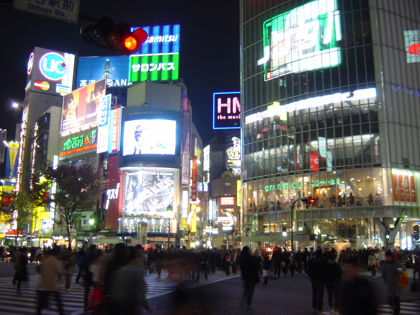 Shibuya streets, Tokyo, Japan